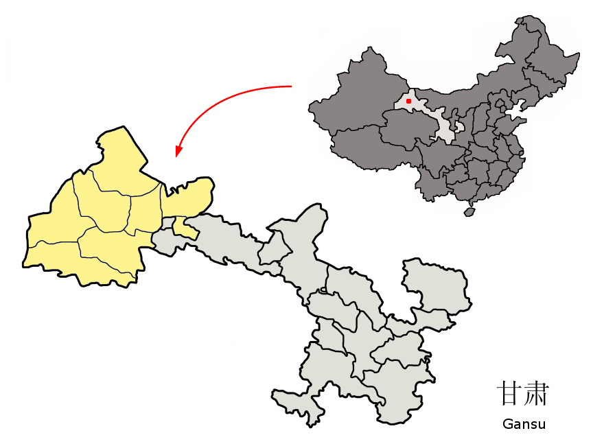 Location of Jiuquan Prefecture (yellow) within Gansu province of China Map drawn in september 2007 using various sources, mainly : Gansu province administrative regions GIS data: 1:1M, County level, 1990 Gansu Counties map from Jiuquan Prefecture map from .cn